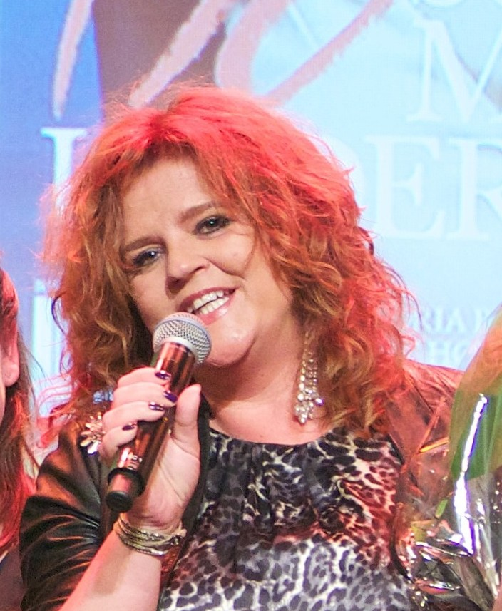 Foto: Signy Fardal in an award show in 2013